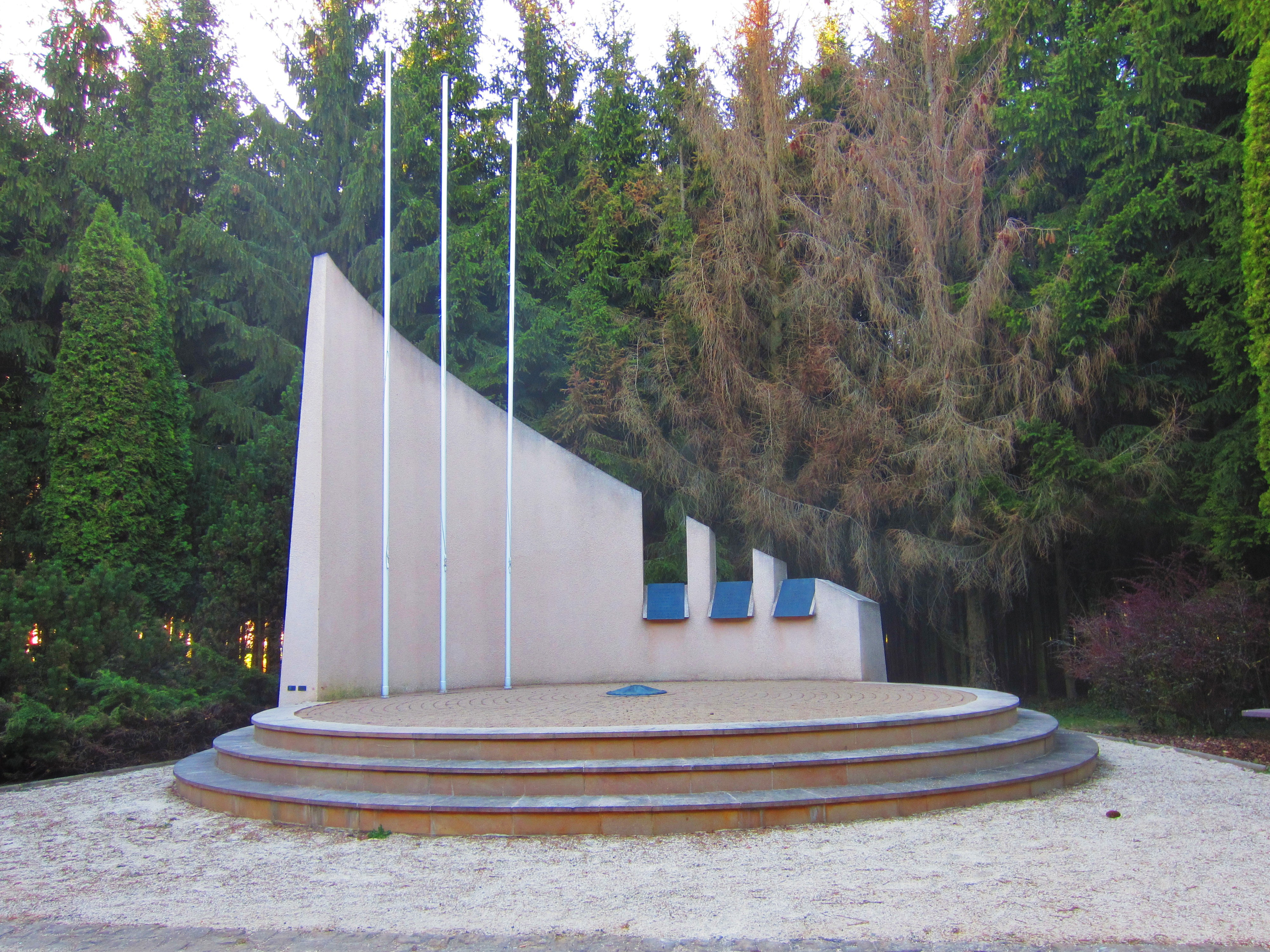 Memorial war Grand Failly